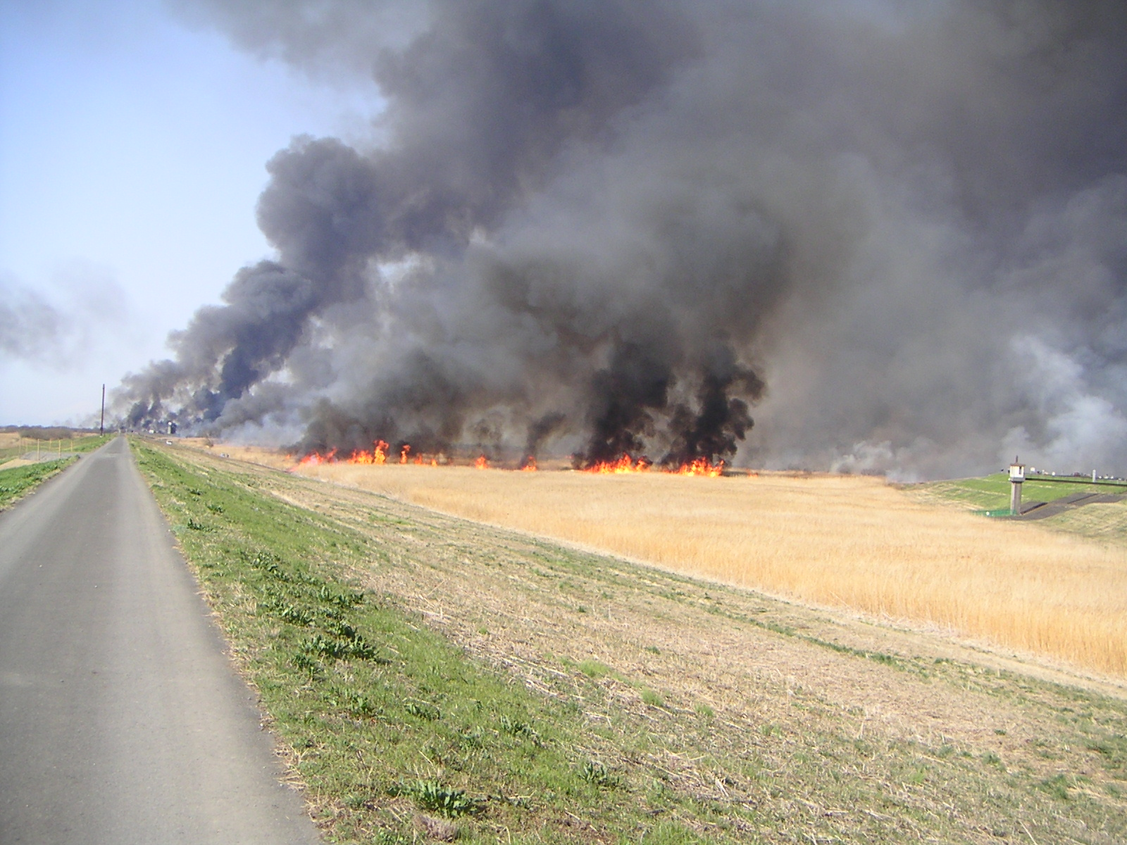 Yoshiyaki at WataraseYusuichi